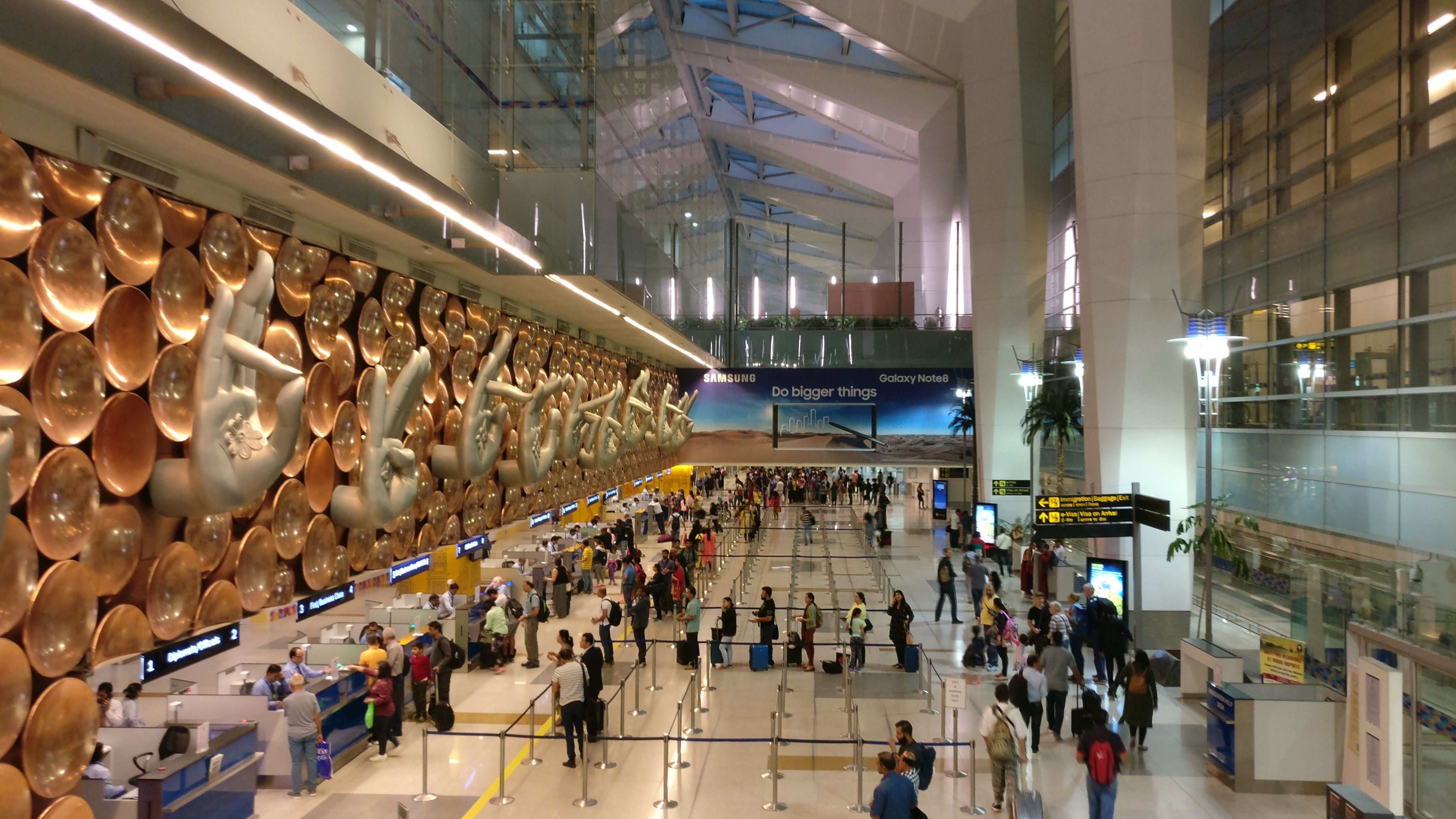 Sculpture of hasta mudras or hand gestures at Terminal 3 of Indira Gandhi International Airport in New Delhi, India